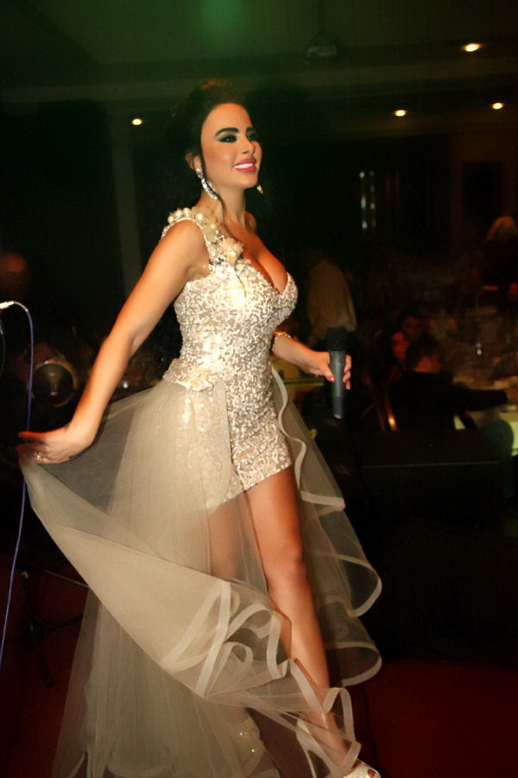 Lebanese singer Layal Abboud in her concert on the occasion of Eid al-Fitr, 18 July 2015;Plaza Palace, Tabarja, Beirut,Lebanon